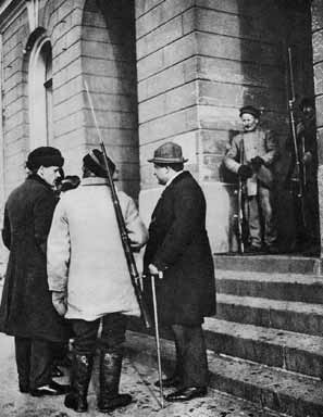 Socialist leaders from Sweden and Denmark visiting Red Finland.